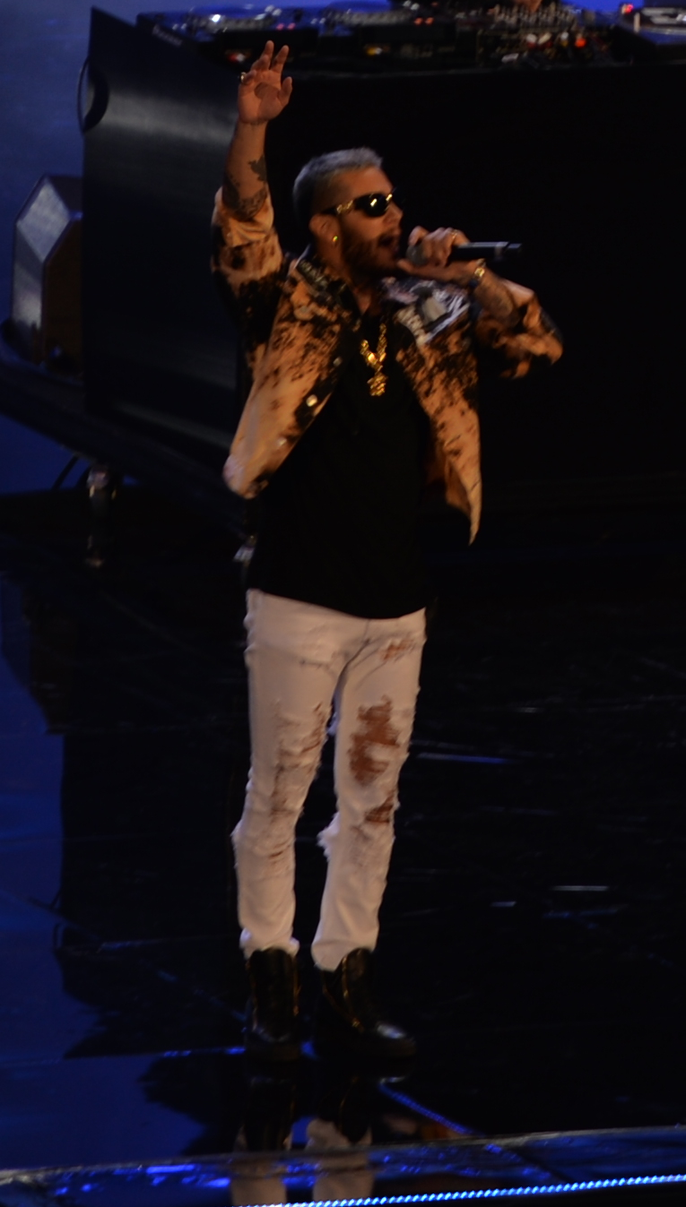 Emis Killa during the 2016 Wind Music Awards ceremony at Verona Arena